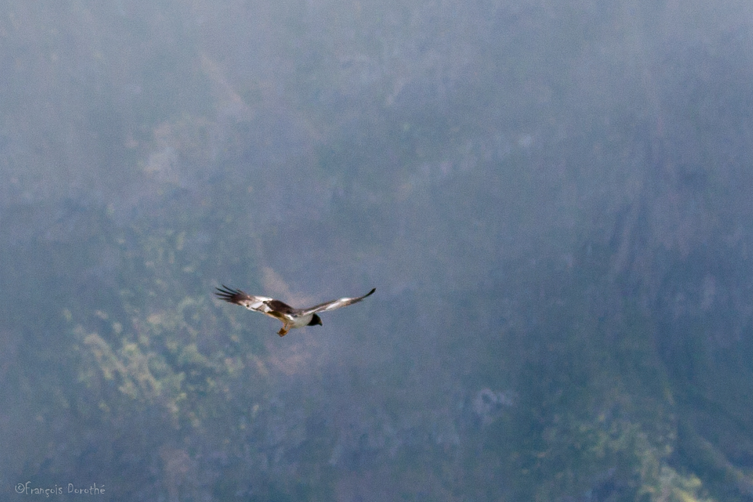 Male Réunion Harrier (Circus maillardi)